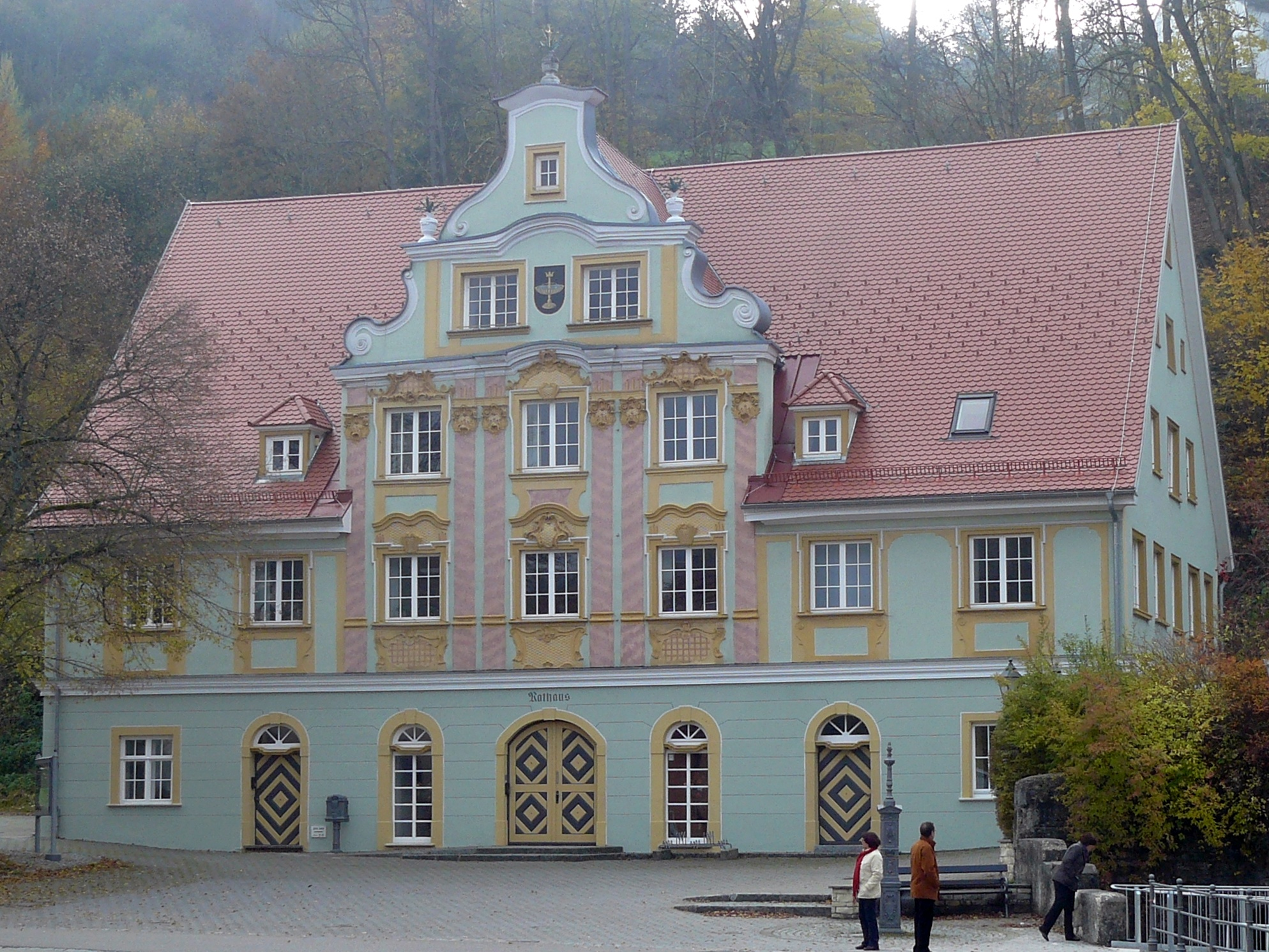 Town hall in Königsbronn after renovation